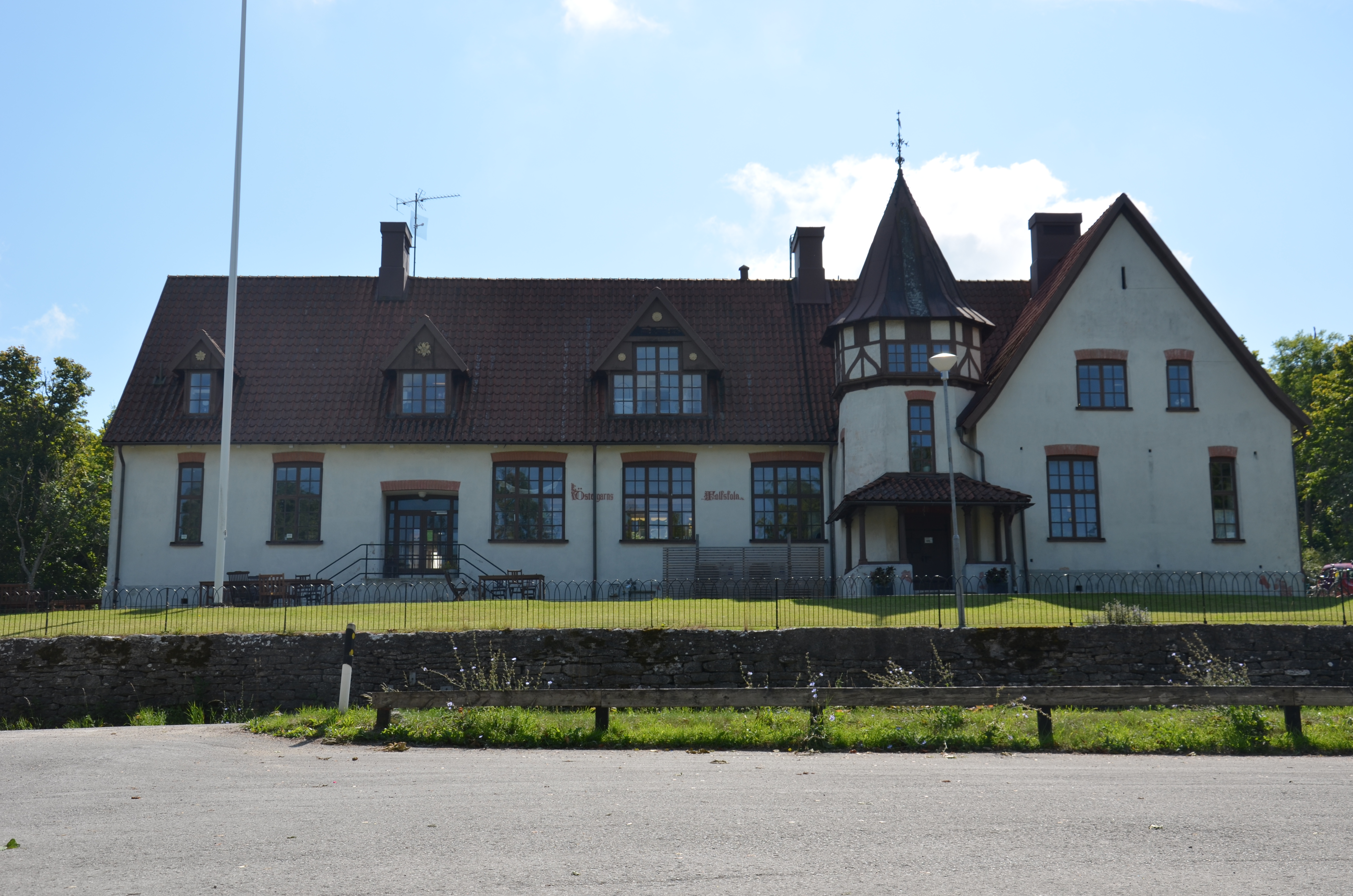 Före detta Östergarns skola, vid Östergarns kyrka, Gotland